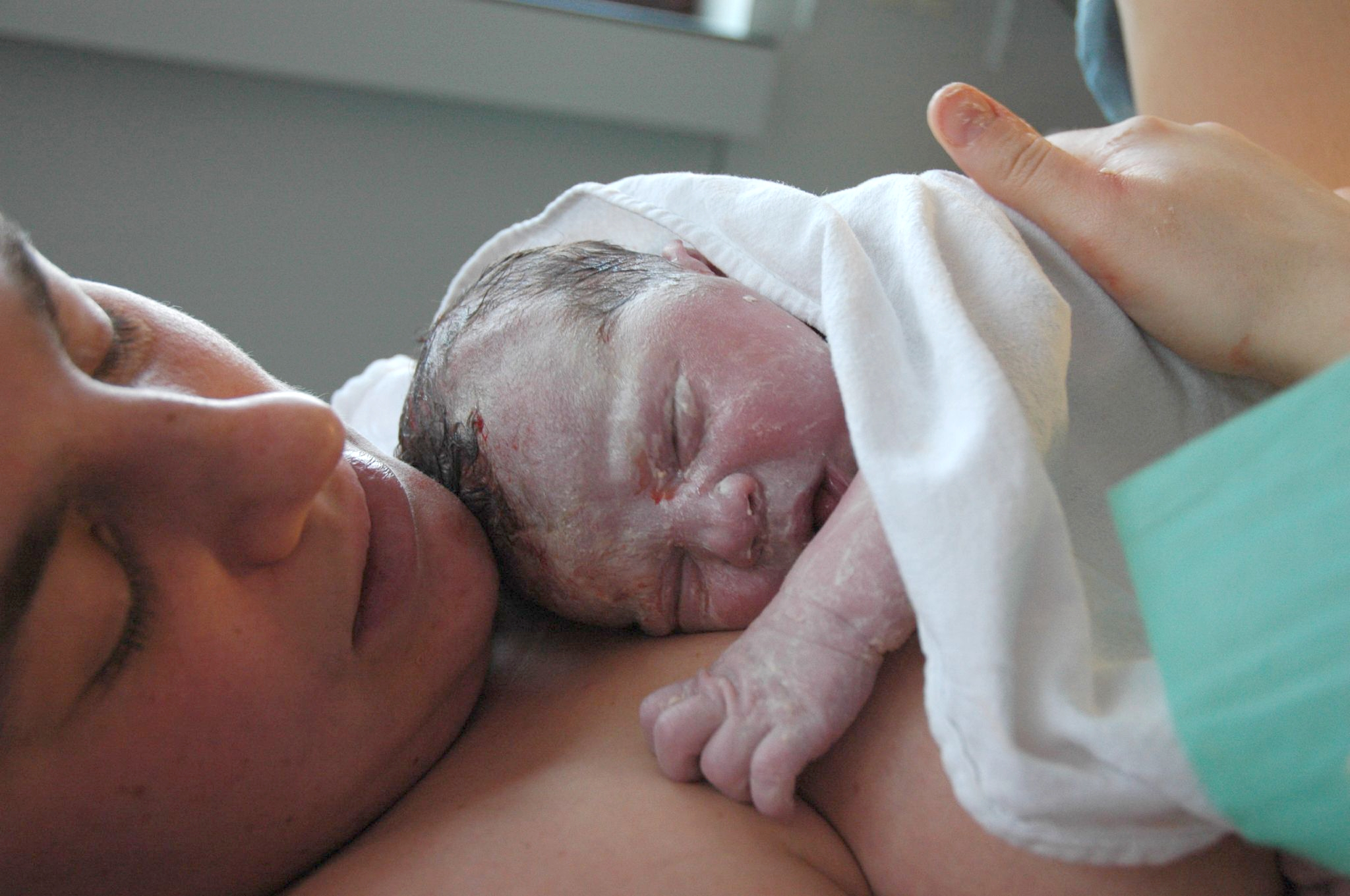 Baby on mother's belly right after birth, skin covered in vernix and some blood.